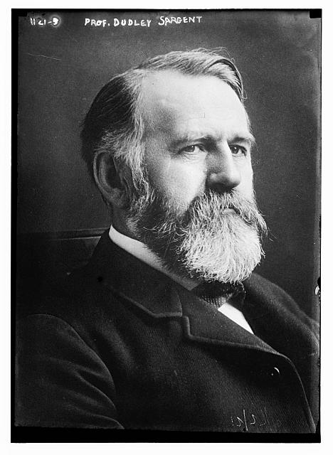 Dudley Allen Sargent (1849-1924), a pioneer in physical education at Harvard University